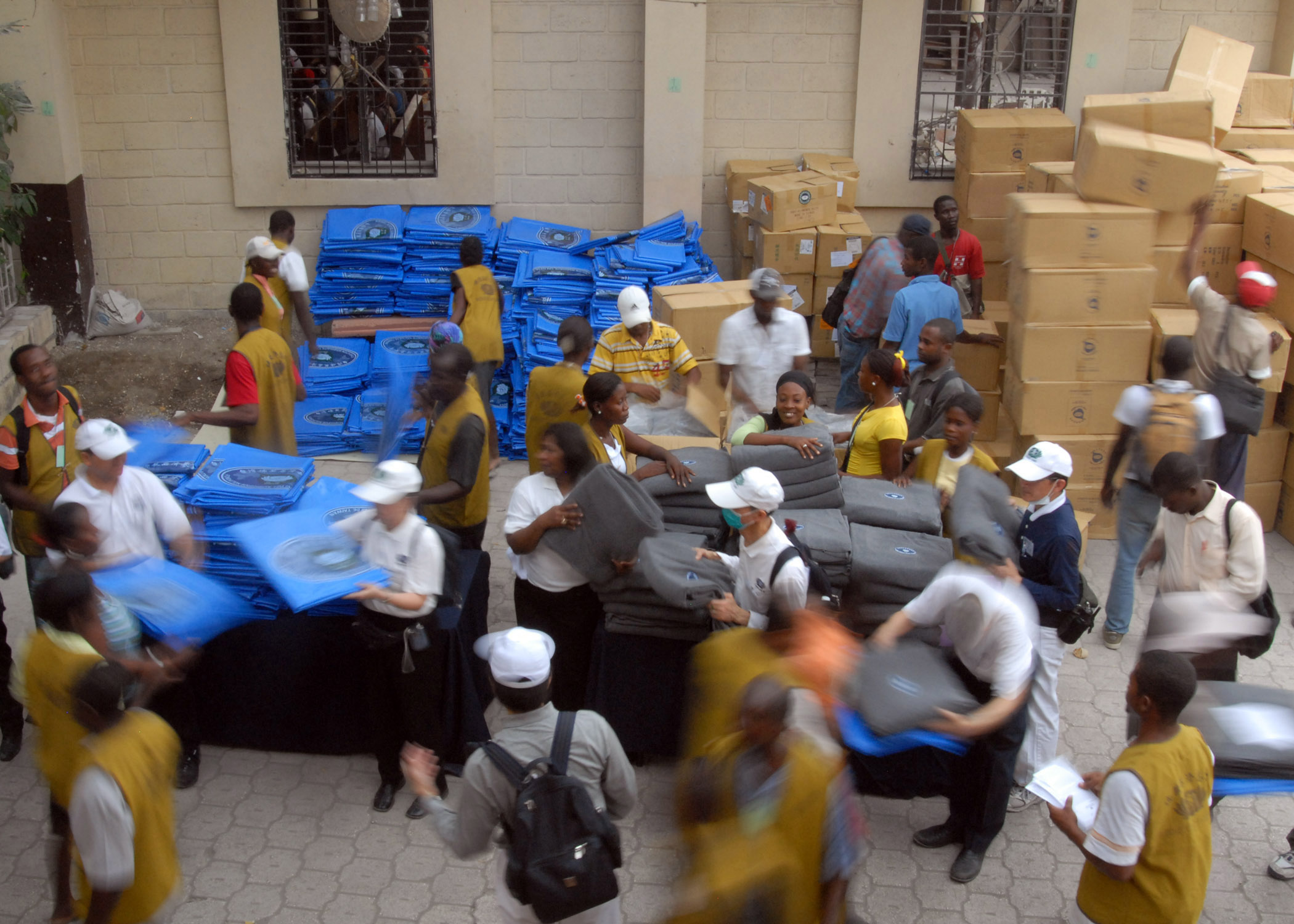 PORT-AU-PRINCE, Haiti (Feb. 26, 2010) Members of the Bouddhiste Tzu Chi Foundation, a Buddist charity based in Taiwan, distribute about 2,000 blankets and tarps to Haitian citizens. Several U.S. and international military and non-governmental agencies are conducting humanitarian and disaster relief operations as part of Operation Unified Response after a 7.0-magnitude earthquake caused severe damage in and around Port-au-Prince, Haiti Jan. 12. (U.S. Navy photo by Chief Mass Communication Specialist Robert J. Fluegel/Released)